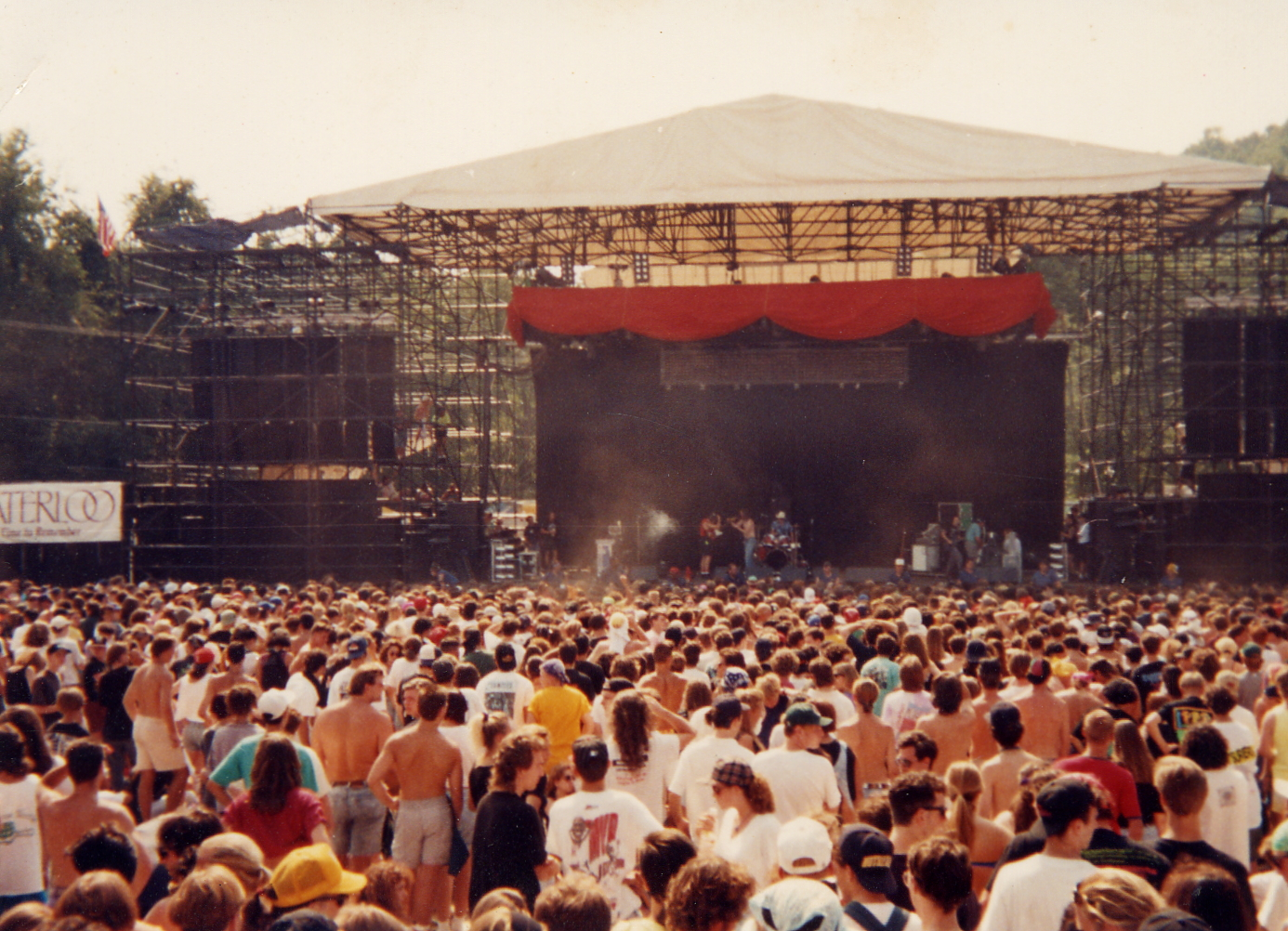 Lollapalooza fest in 1991. "Waterloo? I think this is In New Jersey. That's the Butthole Surfers onstage with the help from some members of Siouxsie and the Banshees."